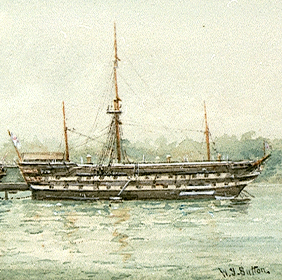 HMS Lion & Implacable 1894 Drawing